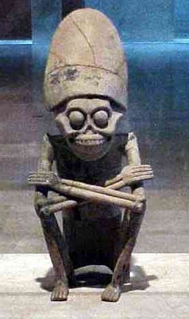 This sculpture of Mictlantecuhtli is found in the Museo de Antropología de Xalapa in Xalapa, Veracruz, Mexico. Please acknowledge "Phil Konstantin" as the creator of this photograph.